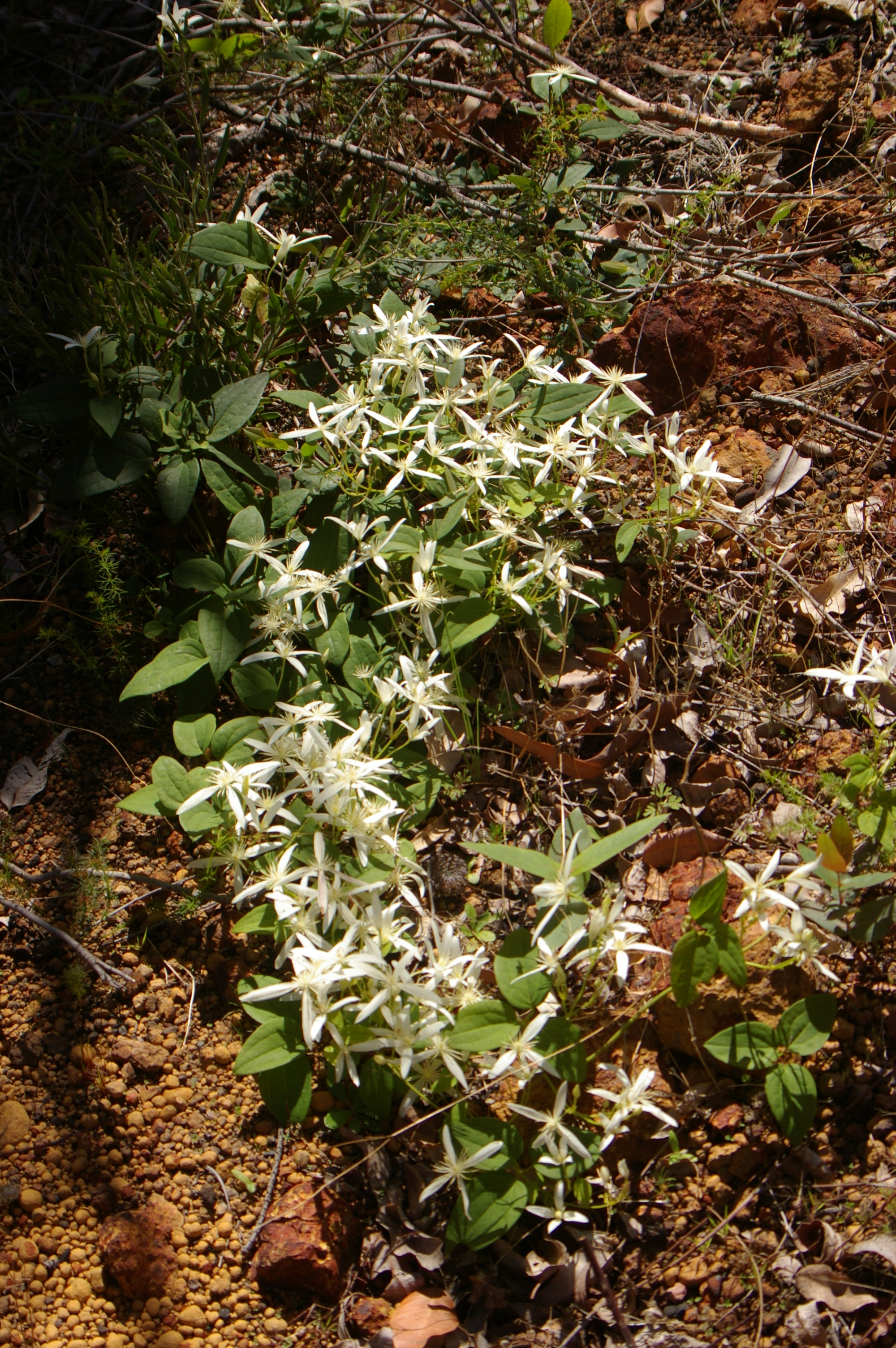 Clematis pubescens var. occidentalis, photographed near Dwellingup